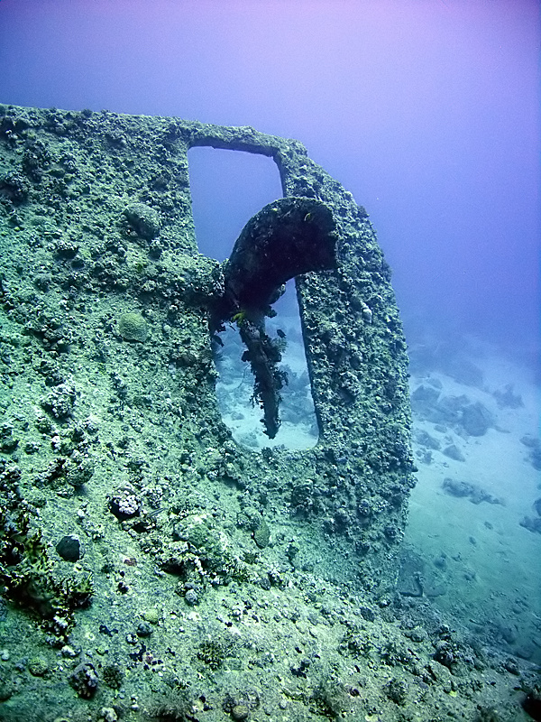 Ship’s propeller of the Dunraven, Ras Mohammed, Sharm el-Sheikh, Egypt